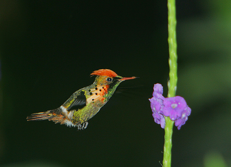 A Tufted Coquette flying at Asa Wright Nature Centre, Northern Range, Trinidad, Trinidad and Tobago.